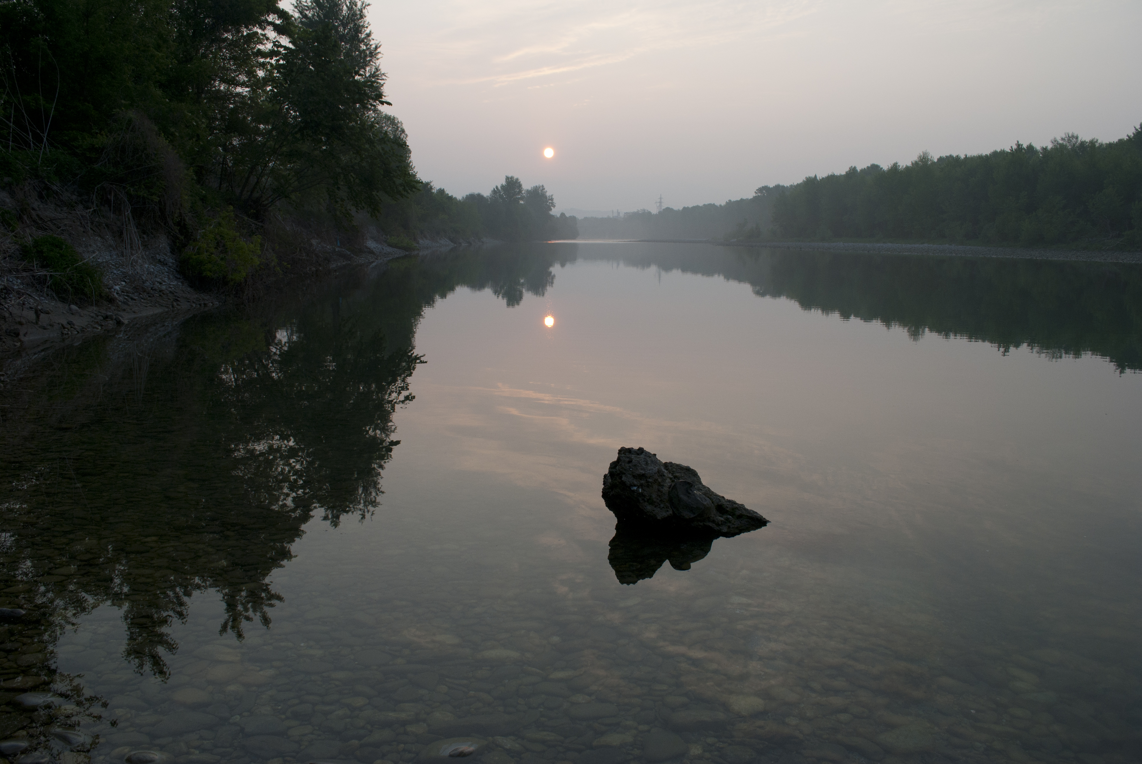 A shoot of Isonzo.